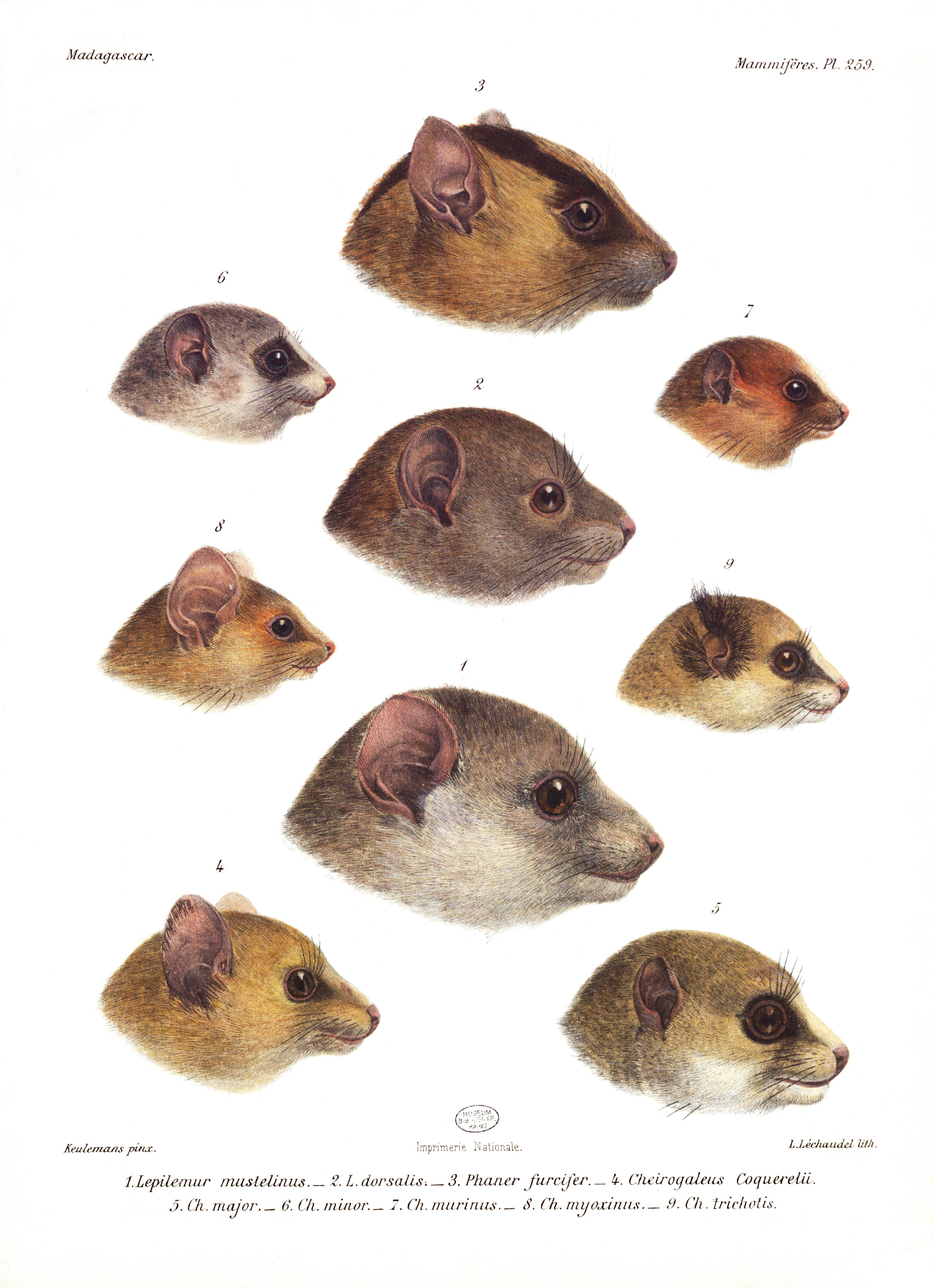 Illustration showing the similarities in skull conformation between Lepilemuridae and Cheirogaleidae.